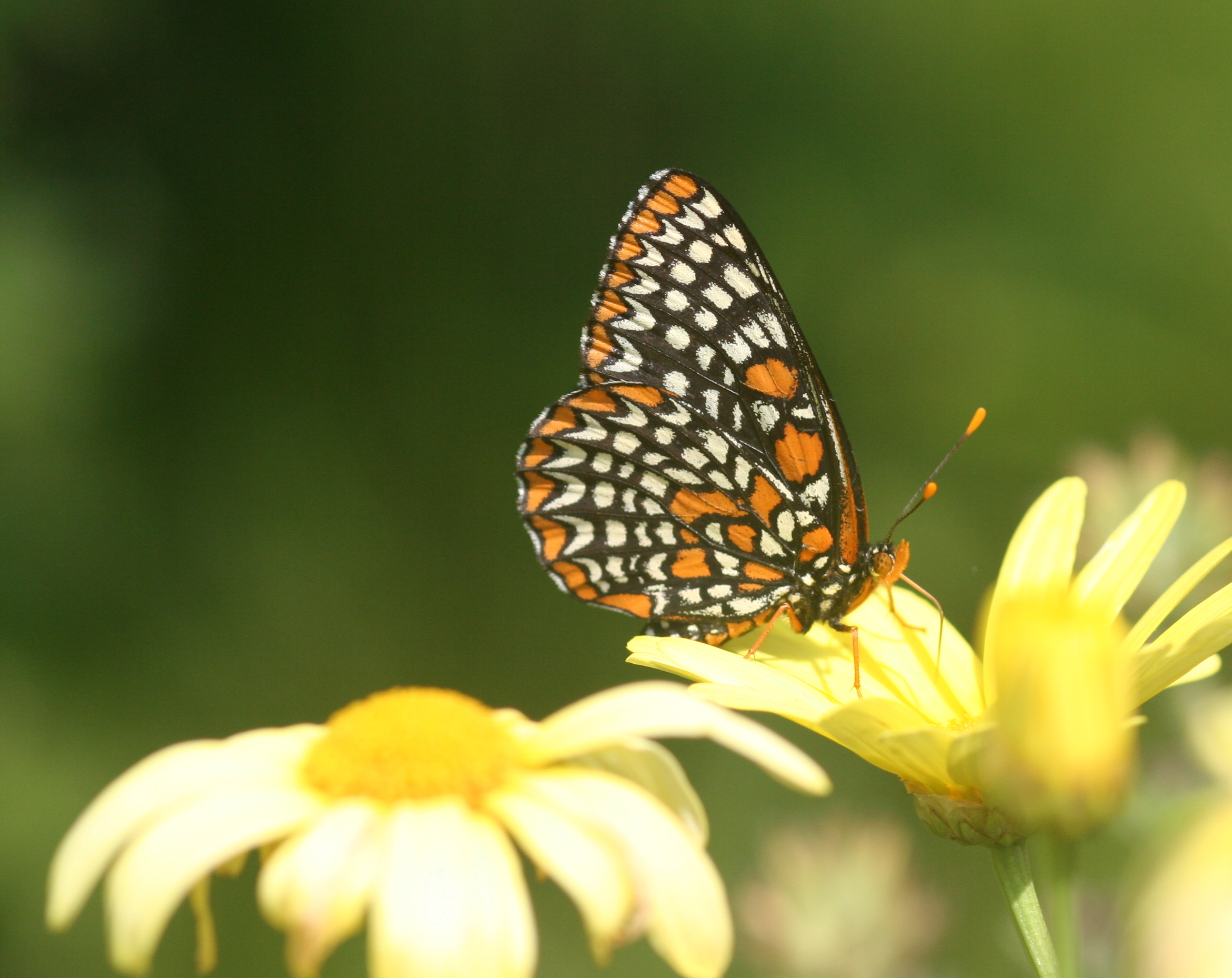 Baltimore Euphydryas phaeton nectaring at daisy Agyranthemum